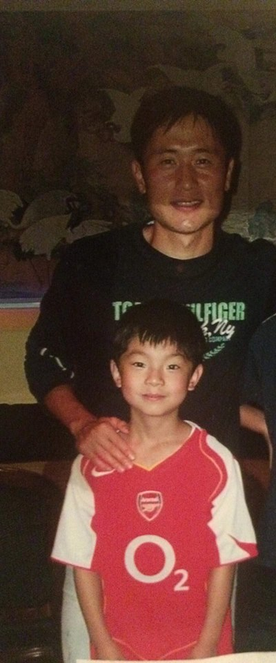 South Korean footballing legend, Lee Young Pyo, pictured alongside a young and enthusiastic fan (2005).